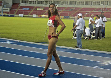 Andrea Ferris, panamanian runner